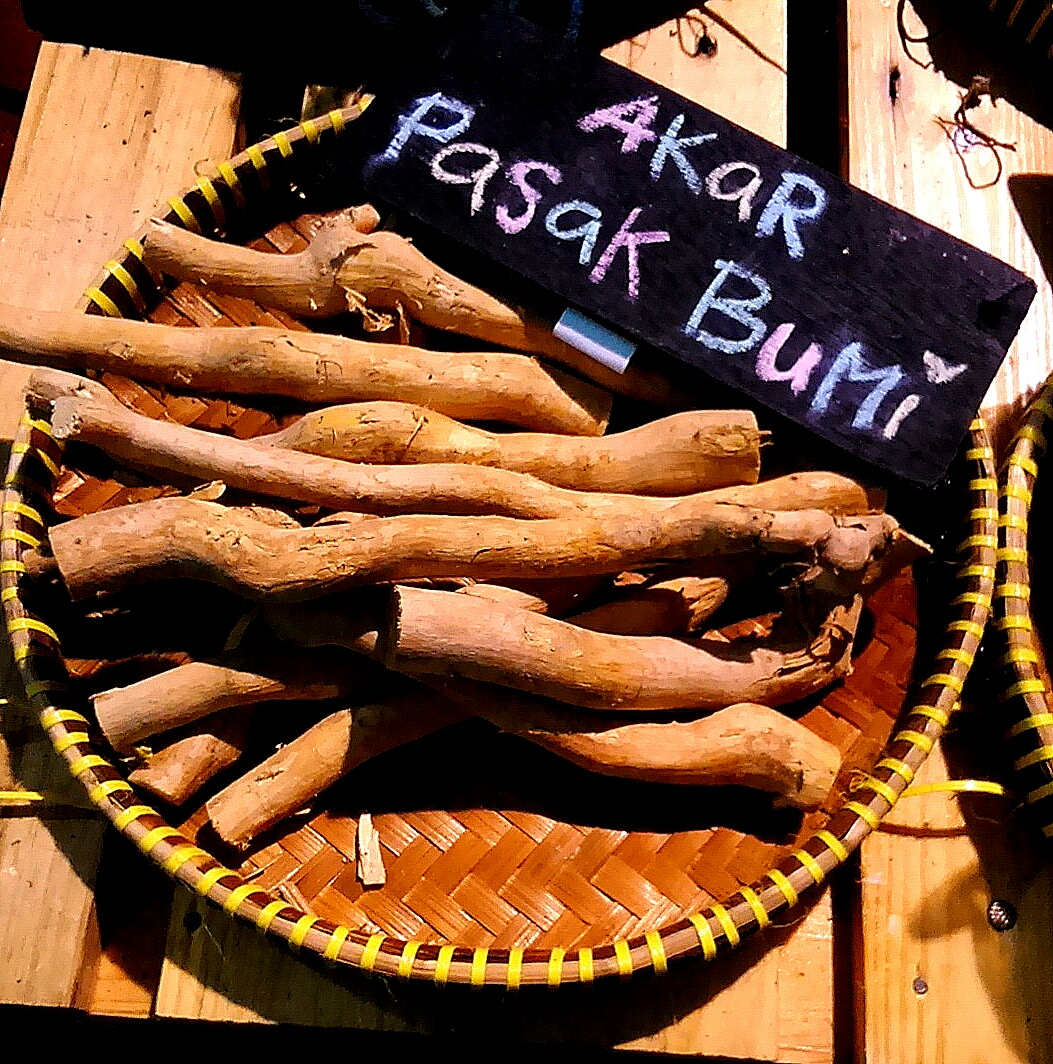 Roots of pasak bumi (Eurycoma longifolia). prepared for jamu.